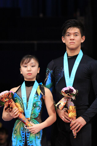 2009 Junior Grand Prix of Figure Skating Final - Narumi Takahashi and Mervin Tran